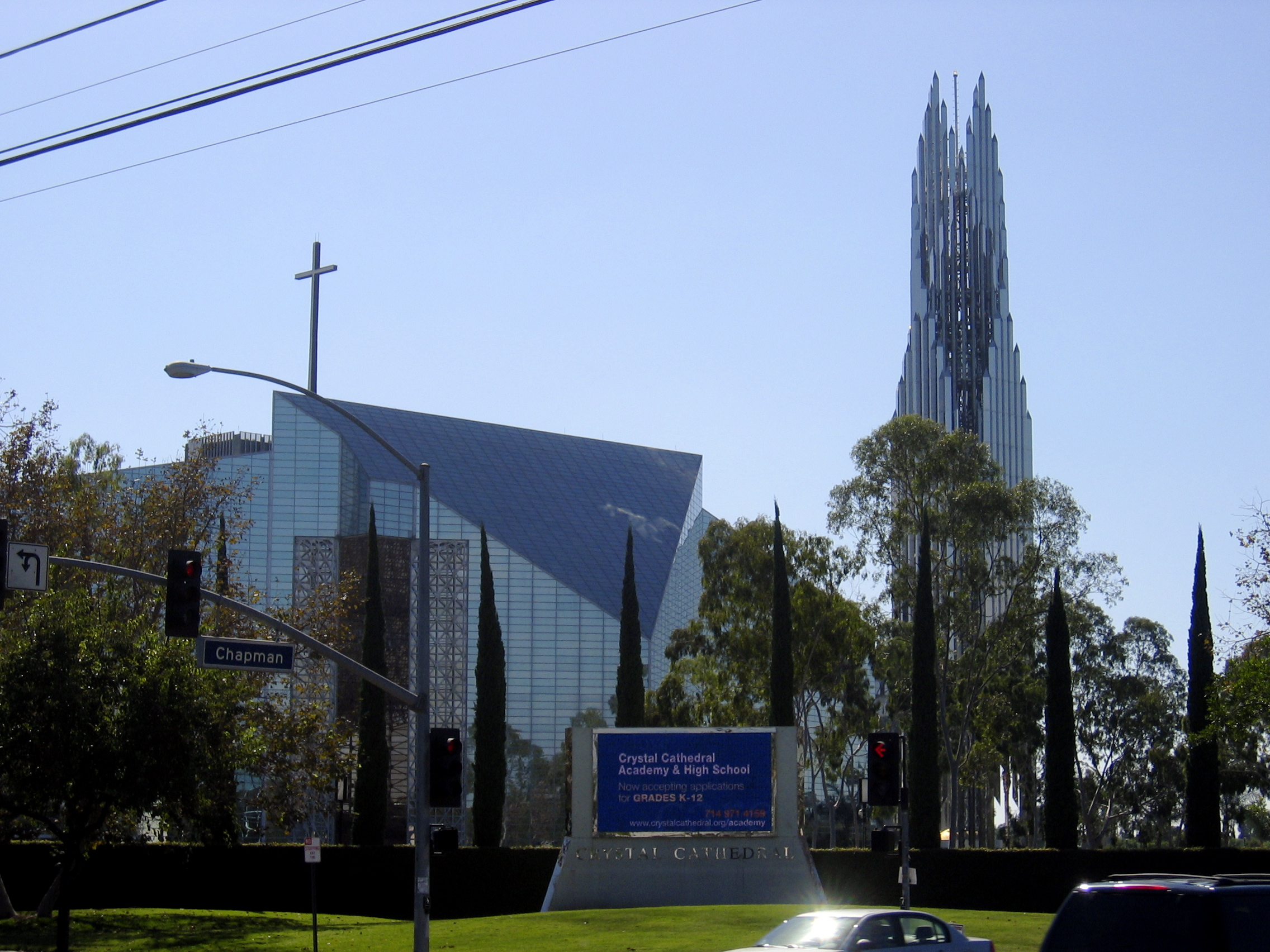 On my way to the hotel, I found the Crystal Cathedral.